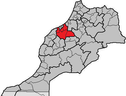 Location of the region Chaouia-Ouardigha in Morocco. This region is subdivided into 4 provinces.